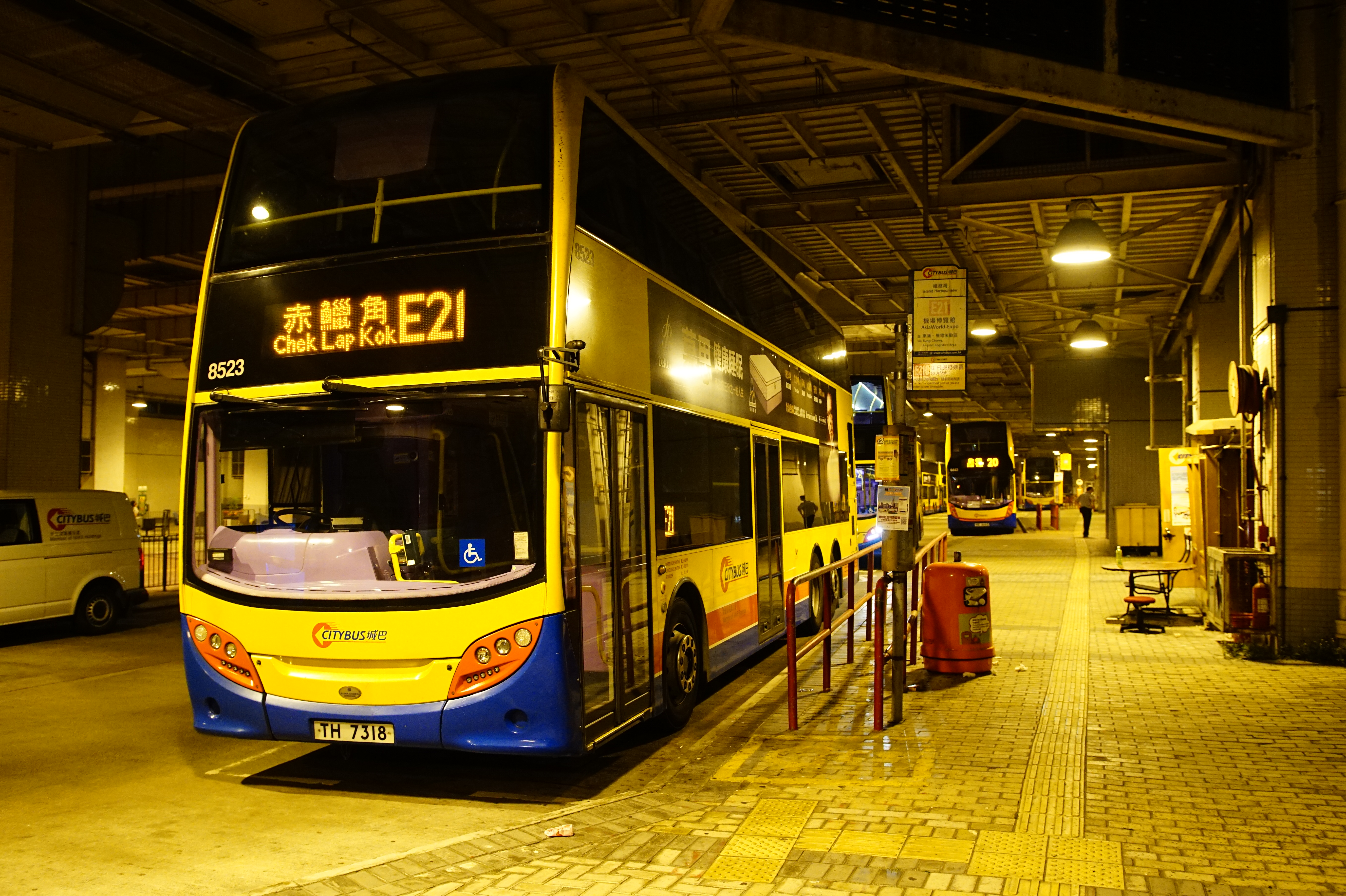 Tai Kok Tsui (Island Harbourview) Public Transport Interchange